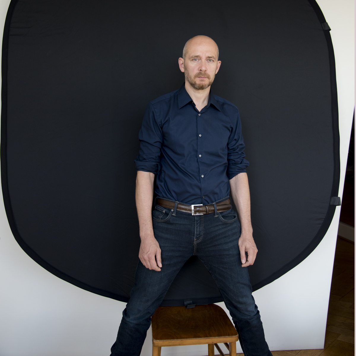 picture of the artist Ralf Brueck